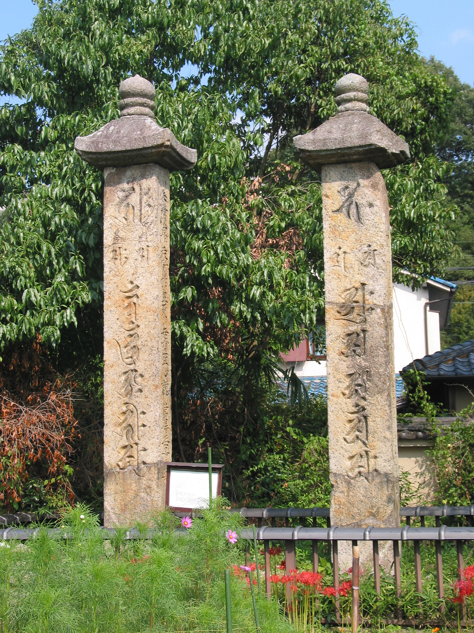 Stone Kasatōba of Hannya-ji (A kind of Stupa made from stone in Kamakura period, Important Cultural Properties of Japan.) Hannyaji Nara-City Nara Pref., Japan.